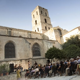 Concert Moment Précieux - Cour de l'Archevêché / Copyright Florent Gardin